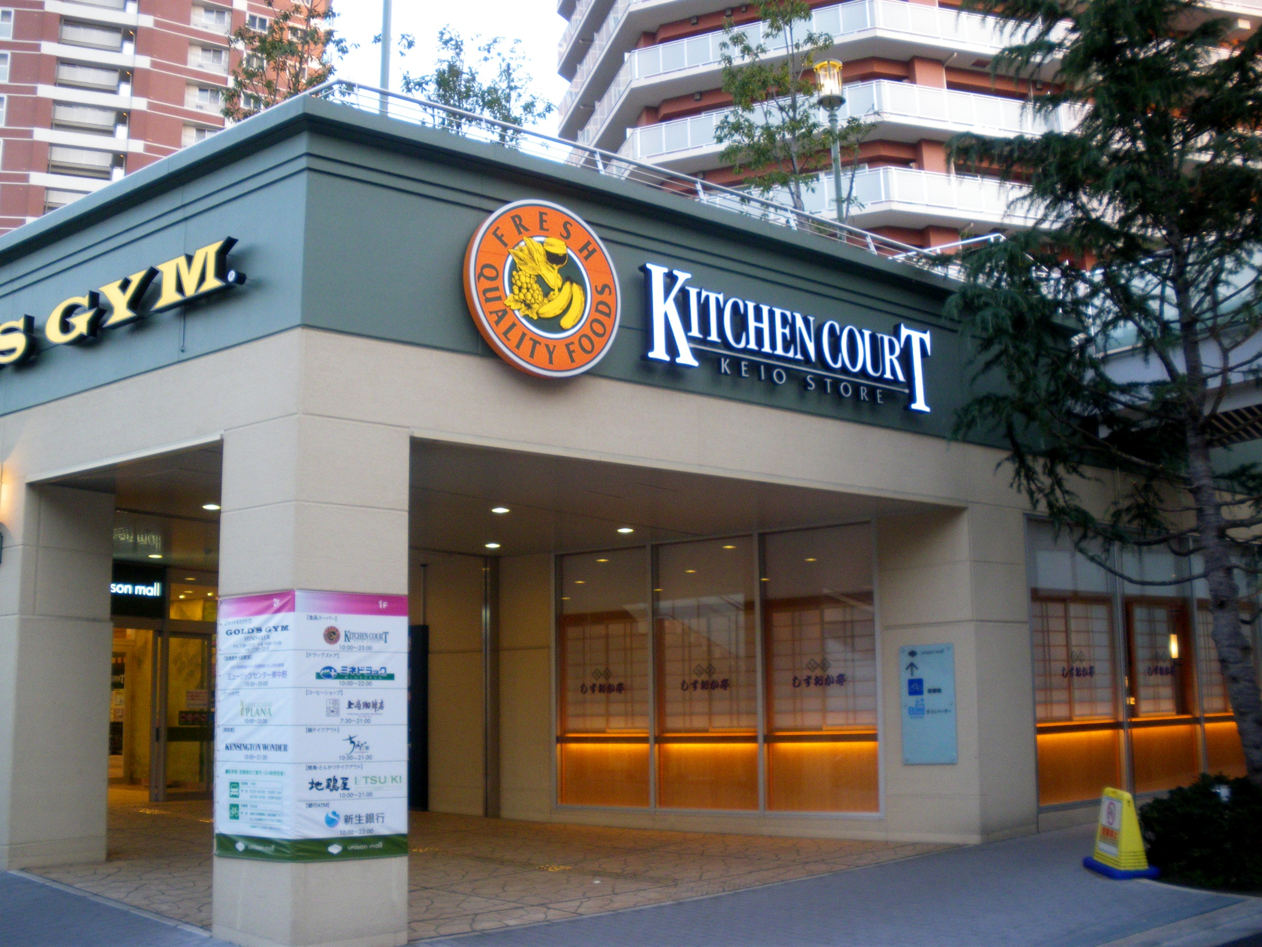 A photo of an entrance of Unison Tower(Kichen Court Keio Store),a high-rise building at higashinakano,Nakano-ku,Tokyo,Japan.